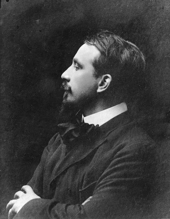 Photograph, Marc-Aurèle de Foy Suzor-Côté, QC, copied 1917, Anonymous, Silver salts on glass - Gelatin dry plate process - 25 x 20 cm